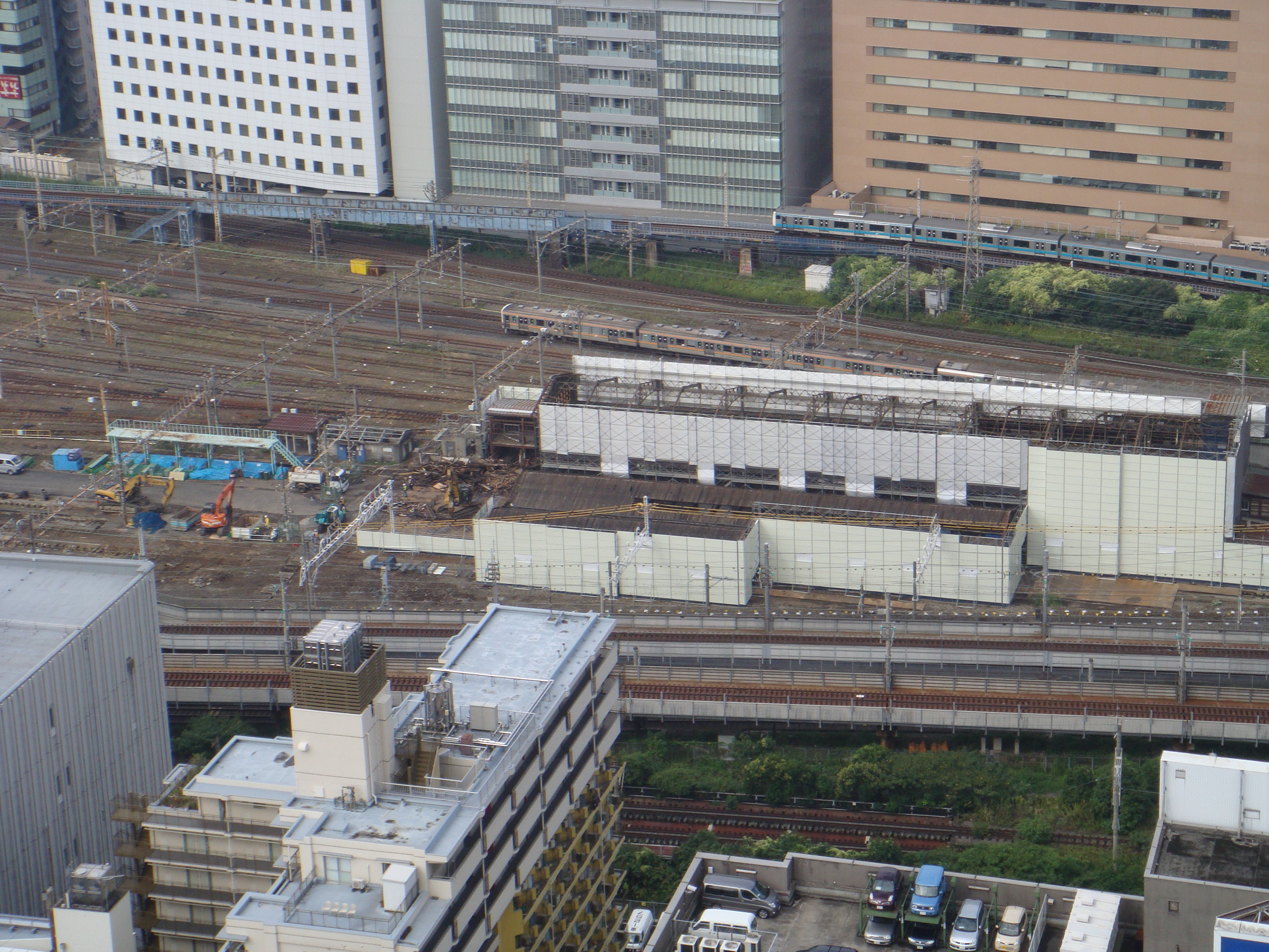 Demolition site at Tamachi Rolling Stock Center